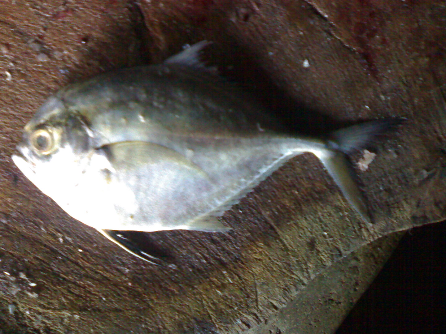 Atropus atropos (per Kare Kare) from Carangidae family, caught in the Coromandel Coast, and photographed in a shop in Bangalore.